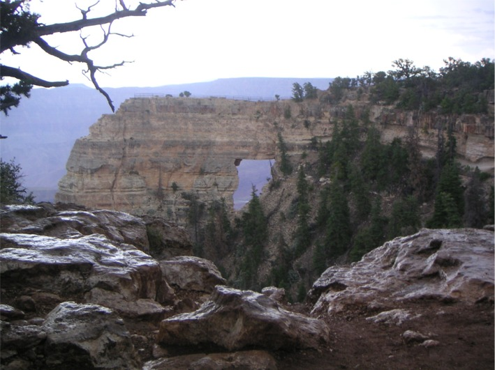 Angels Window at Cape Royal, North Rim, Grand Canyon